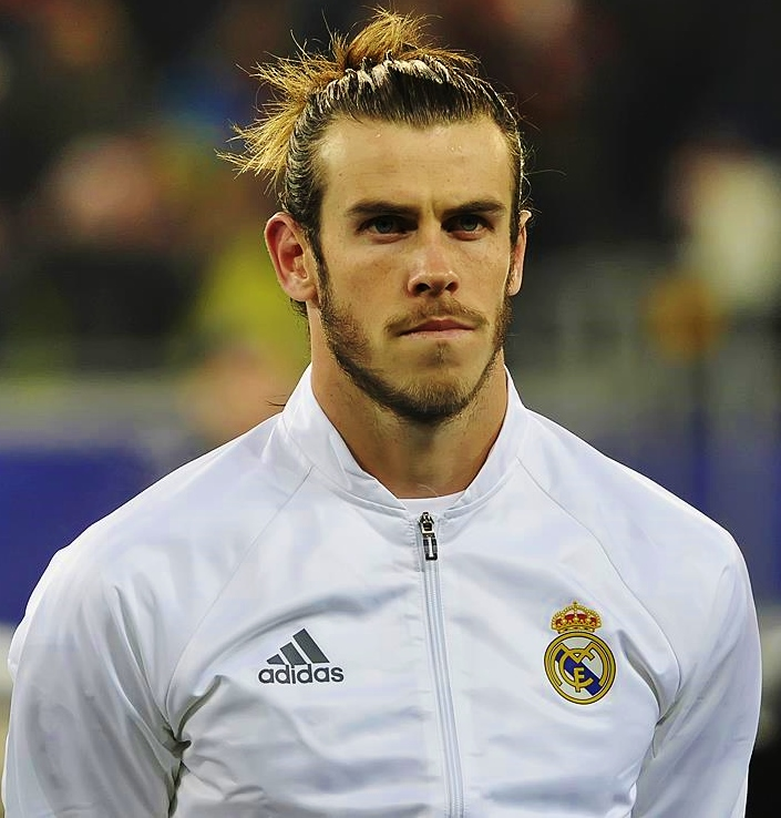 Gareth Bale